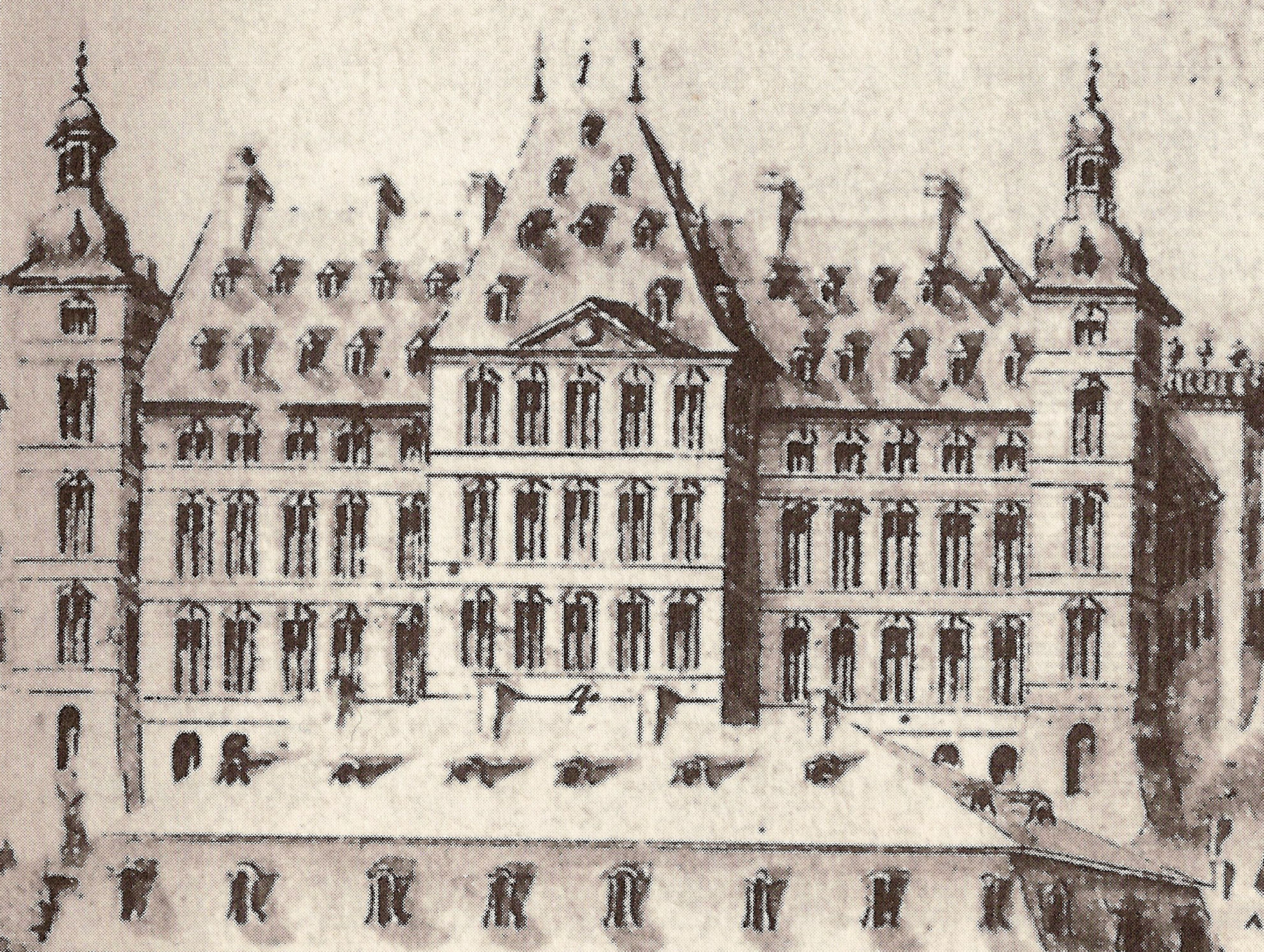 Castle Blieskastel